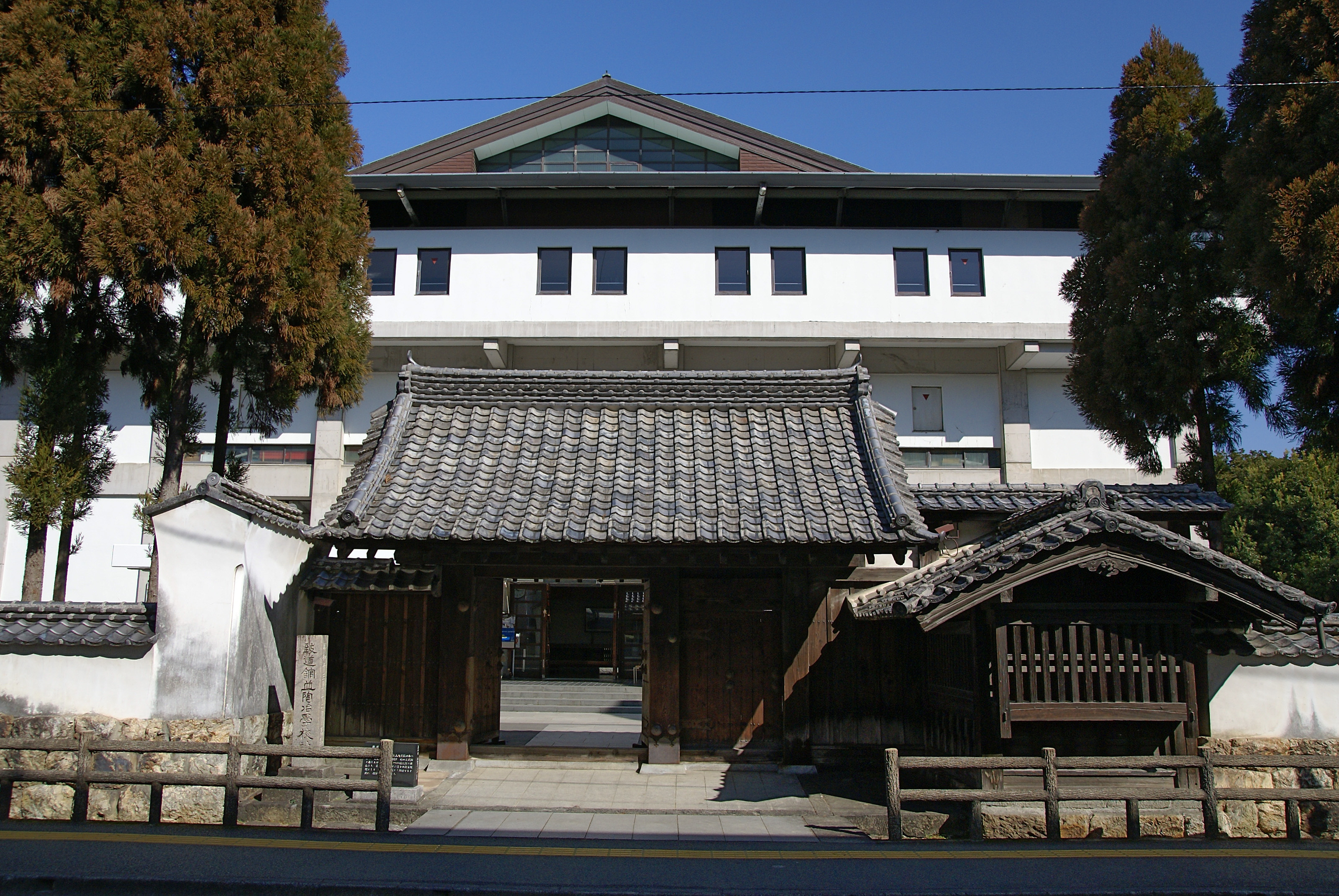 Kochi Prefectural Budokan in Kochi, Kochi prefecture, Japan